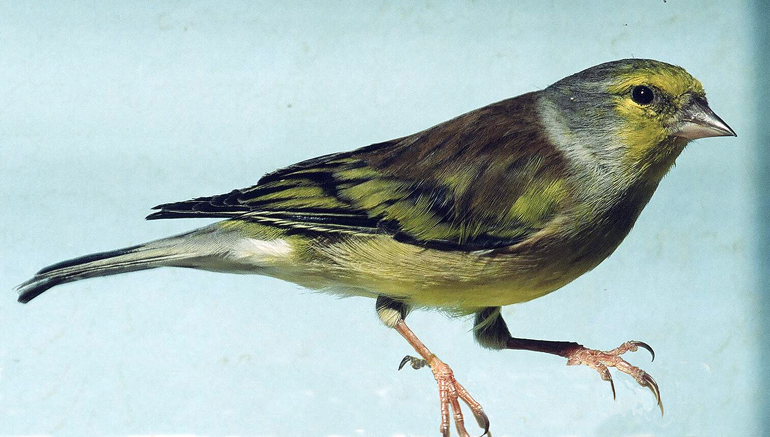 Corsican finch - male